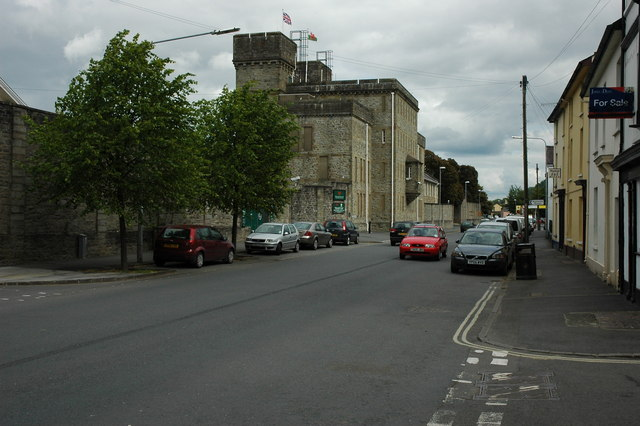 The Barracks, Brecon The Barracks in Brecon are on the Wattan and were built in the 19th century with the keep dating from 1879.